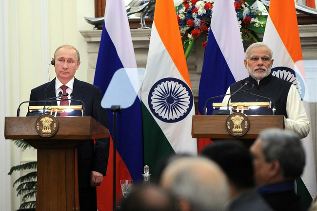 Narendra Modi and Vladimir Putin at a press statement following Russian-Indian talks in New Delhi.